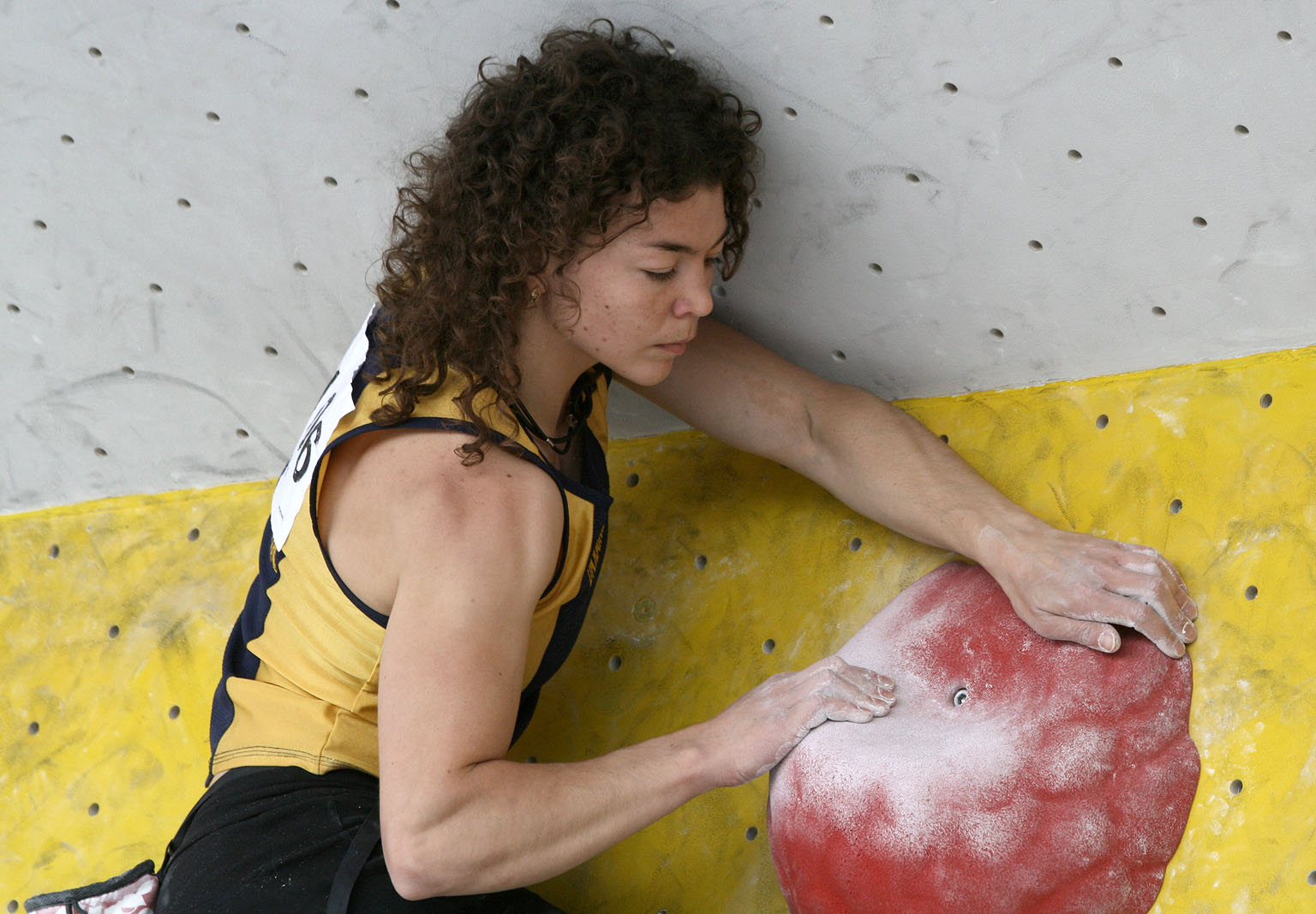 Olga Shalagina during the semi-finals at the IFSC Boulder Worldcup Vienna 2010.